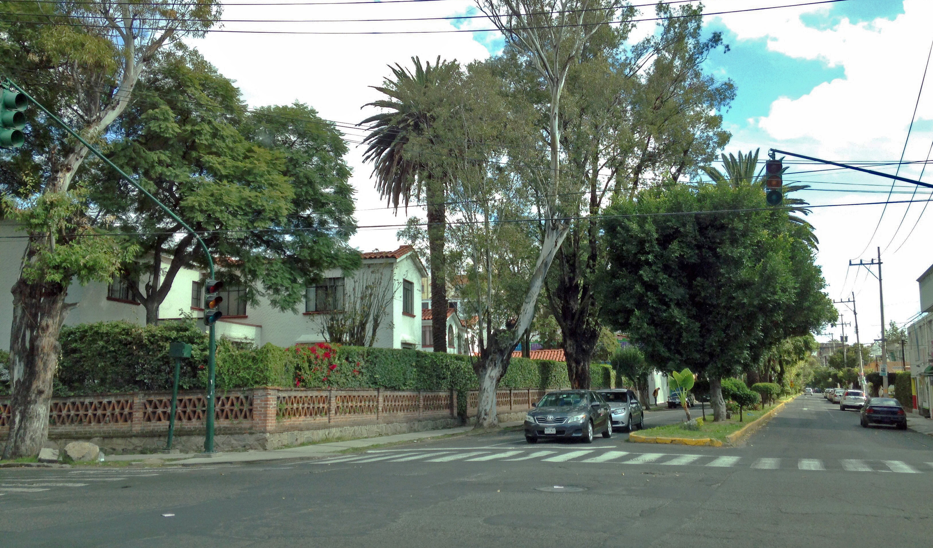 Riobamba & Sierravista intersection in Lindavista neighbourhood, northern Mexico City